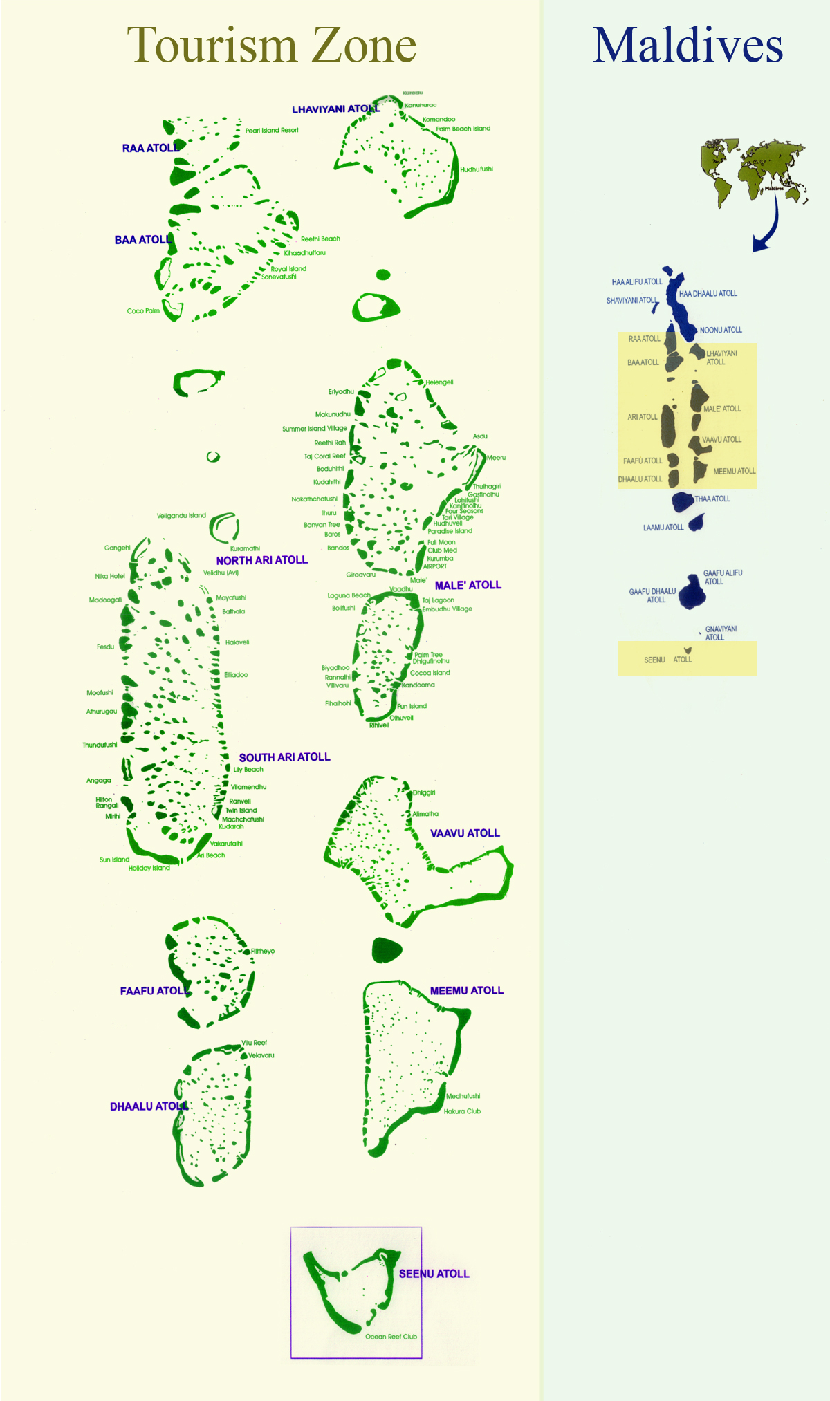 Tourism zone of the Maldives (as of 2002). Left side magnifies the zone indicated on the right side. Resorts, as of 2002, are labelled. Apart from these labelled resorts, inhabited islands are located in these atolls Note: Zone identification image created with scanned map (of 2002). High quality updated vector should later replace this version.